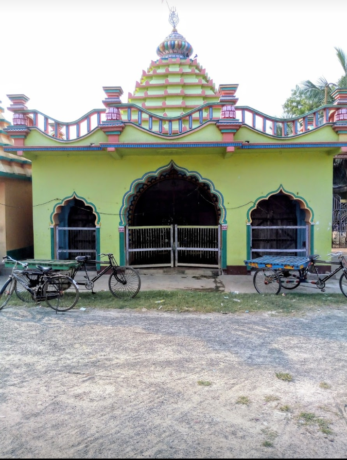 This is a temple in pirahat area in Bhadrak district, Odisha